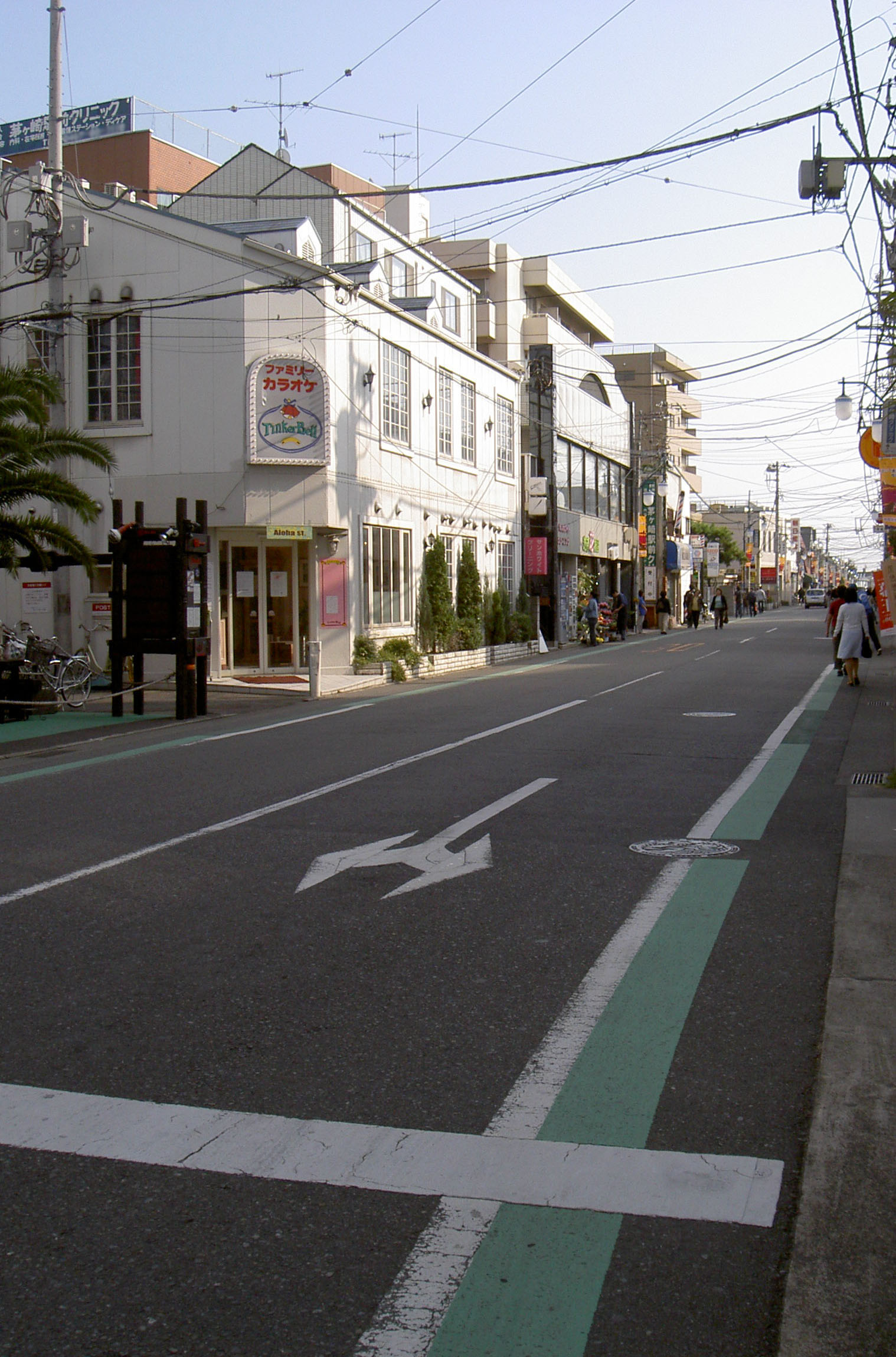 Kanagawa prefectural road route 310 ja: 神奈川県道310号茅ヶ崎停車場茅ヶ崎線